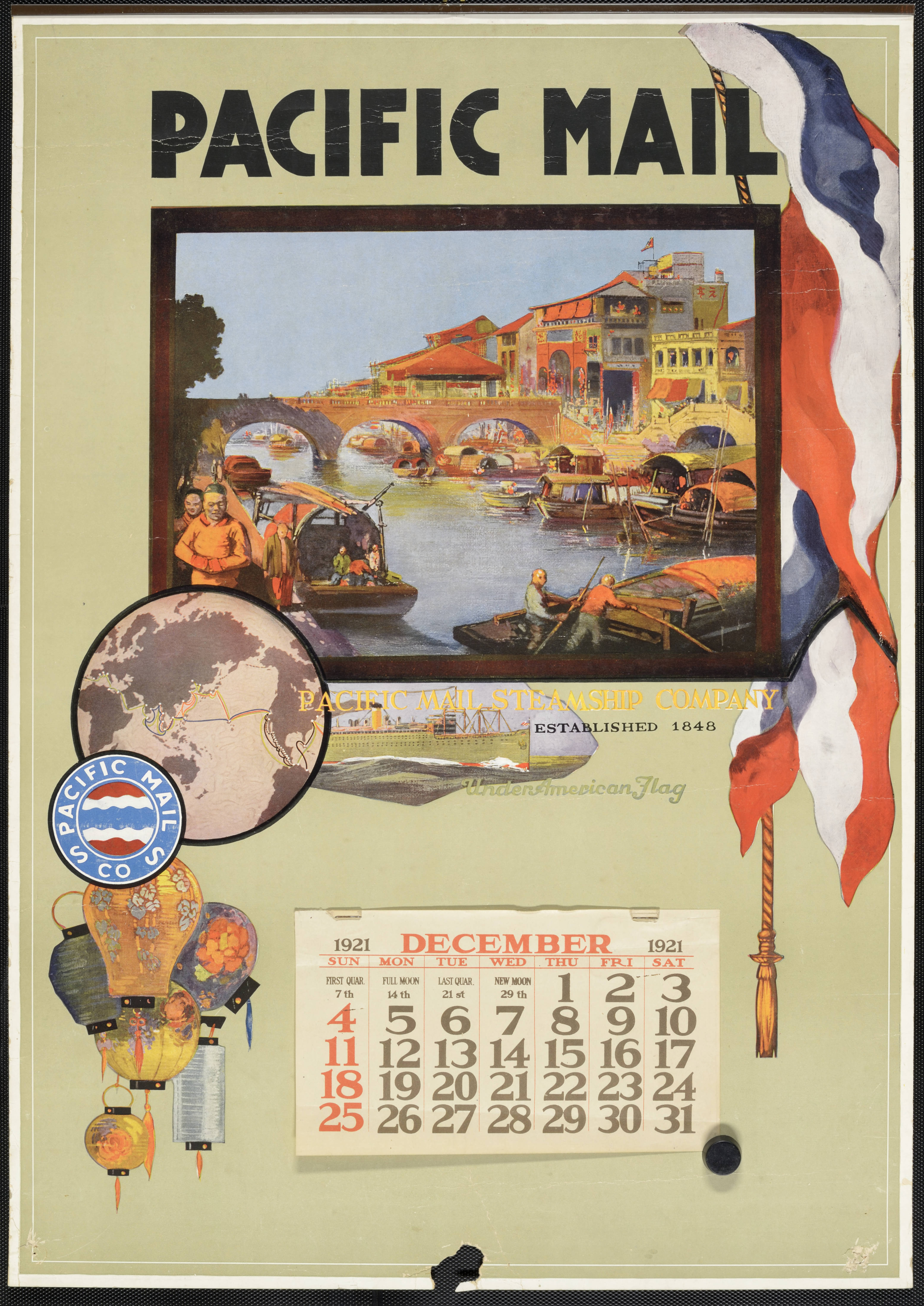 Pacific Mail: Pacific Mail Steamship Company: under American flag [American flag] An American steamship company. Geographic Subject (Continent): Asia; North America Filename: rbm-coll3020-02-01.TIF Access Conditions: Send requests to address given. Or contact us via Phone (213) 740-1772. Coverage date: 1867/1925 Part of collection: Rare Books and Manuscripts Collection Type: images Part of subcollection: Fine Arts Publisher (of the Digital Version): University of Southern California. Libraries Format (imt): image/tiff Geographic Subject (State): California Archival file: rbm_Volume134/rbm-coll3020-02-01.TIF Date issued: 1921 Identifying Number: Asian poster collection (coll. 3020). Japanese poster collection. Steamship travel posters, no. 5, item 2 Publisher (of the Original Version): Pacific Mail Steamship Company Repository Name: USC Libraries. East Asian Library Subject (naf Corporate Name): Pacific Mail Steamship Company Language: English Repository Address: Doheny Memorial Library, Los Angeles, CA 90089-1825 Geographic Subject (City or Populated Place): San Francisco Contributing entity: University of Southern California Format (aat): posters; calendars Series: USC Japanese poster collection: Steamship travel posters Place of Publication (of the Origianal Version): San Francisco, Calif. References: [Website about the steampship company] Pacific Mail Steam Ship Company Subject (lcsh): Steamboat lines Repository Email: Geographic Subject (Country): USA